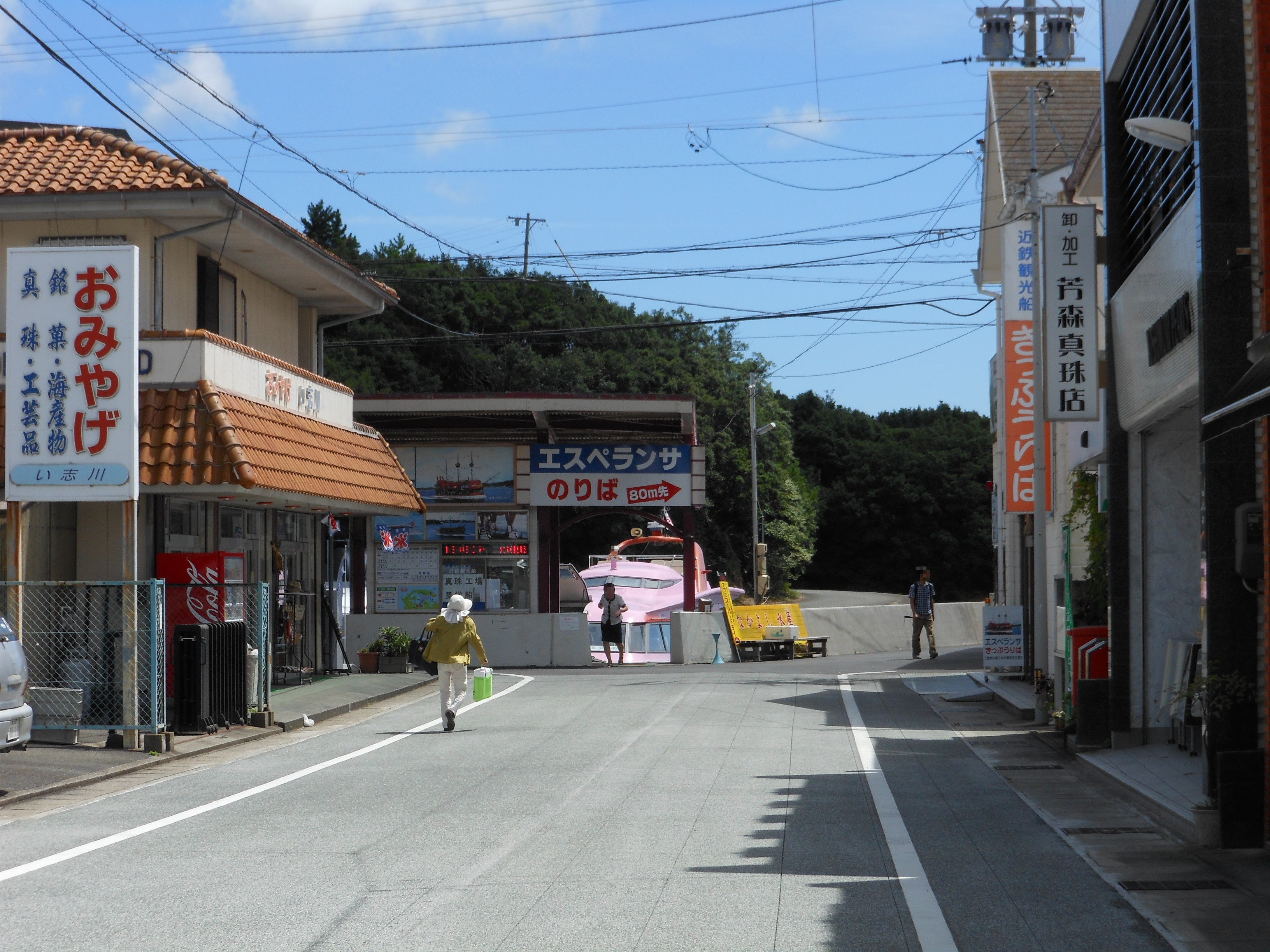 This is a port in Japan. This is also starting point of Route 167 and 260.